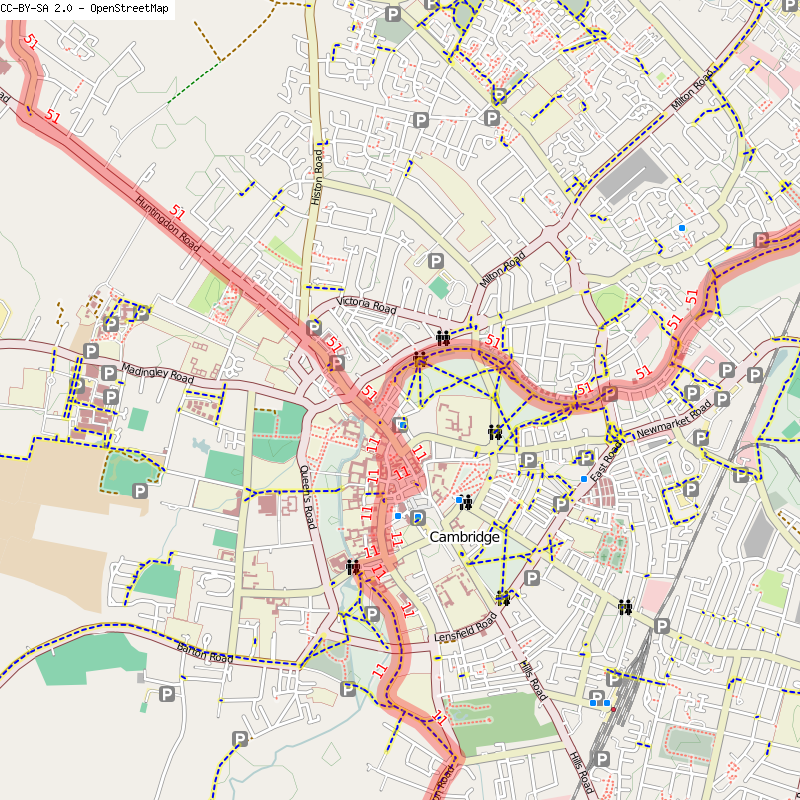 Map of NCN cycleways through Cambridge